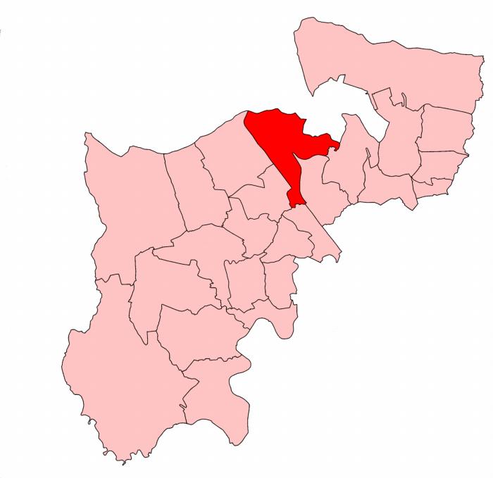 A map of Hendon North constituency within Middlesex, as it existed from 1945 to 1950.